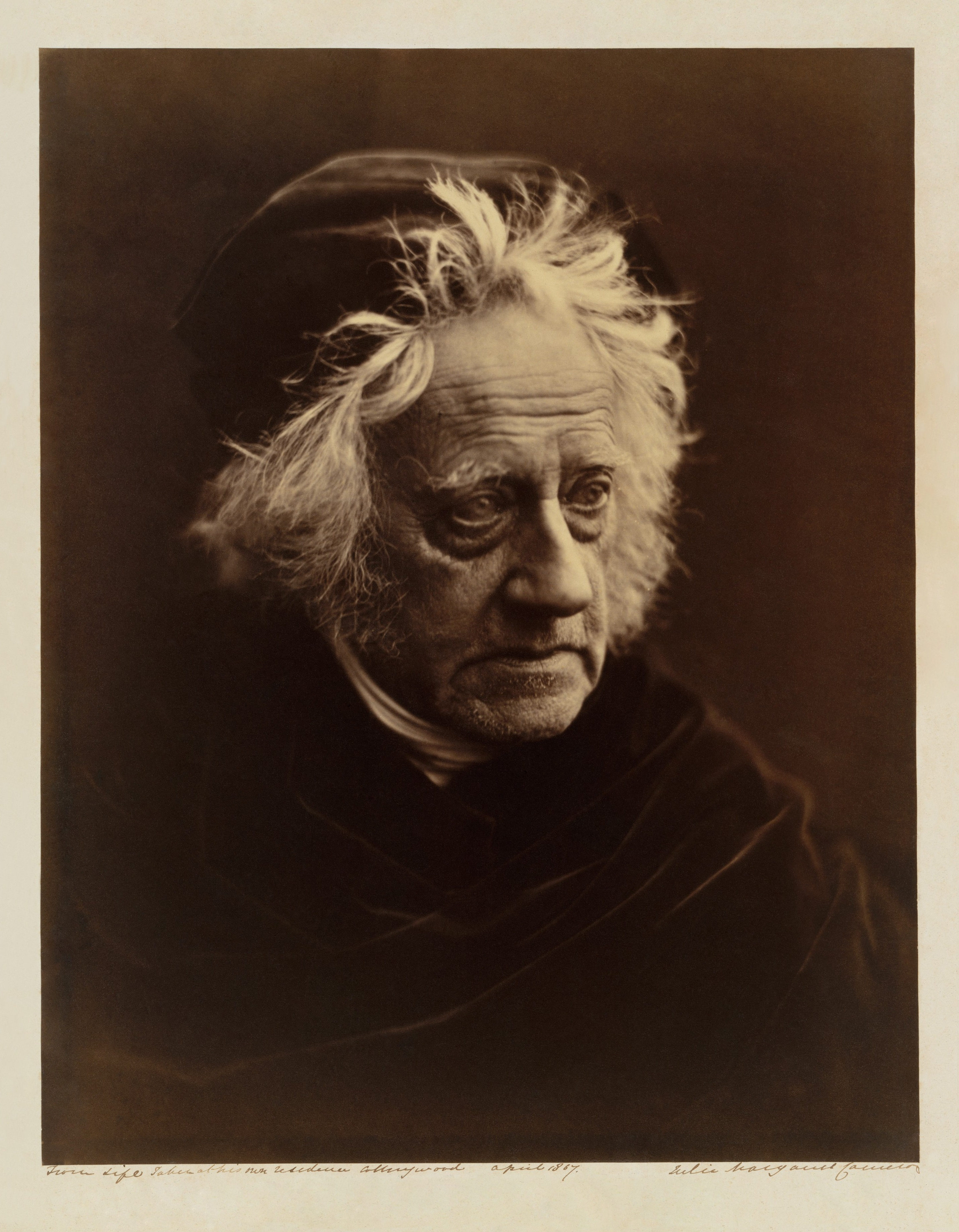 John Herschel (1815-1879), photographed by Julia Margaret Cameron in April 1867. Image: 31.8 x 24.9 cm (12 1/2 x 9 13/16 in.) Mount: 39.9 x 32.9 cm (15 11/16 x 12 15/16 in.)